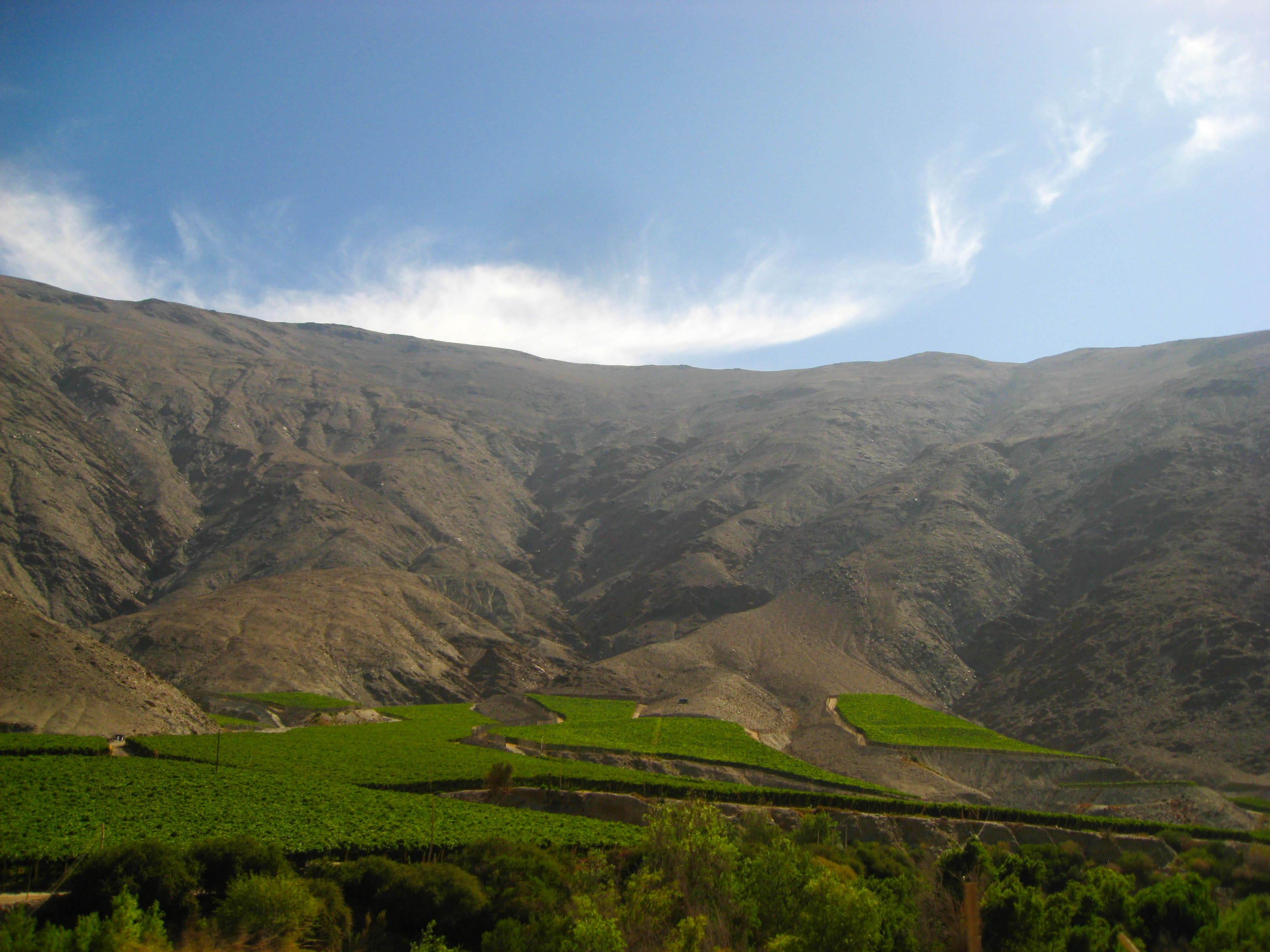 Vineyards in Alto del Carmen, Chile